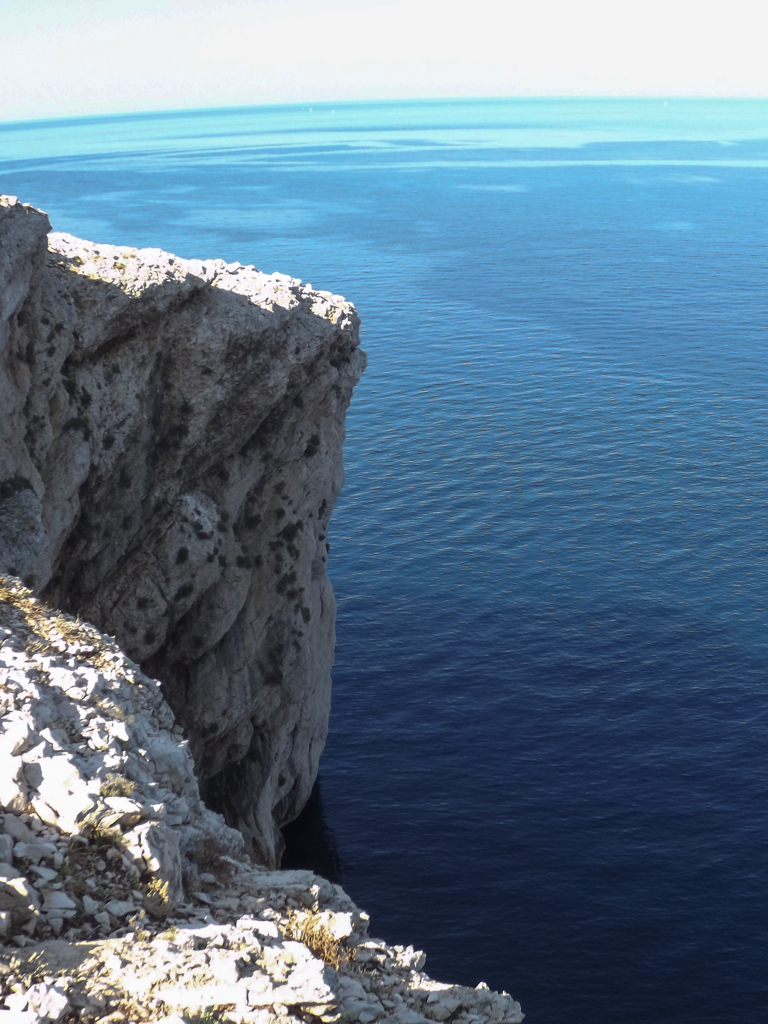 High cliff on Unije island